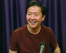 This is a Thumbnail photo from Ken Jeong's hour long live interview on theStream.tv.